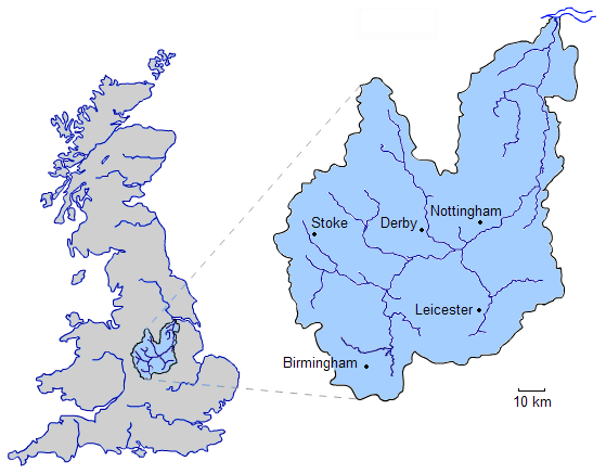 The River Trent is one of the major rivers of England. Its source is in Staffordshire between Biddulph and Biddulph Moor. It flows through the Midlands (forming a once-significant boundary between the North and South of England) until it joins the River Ouse at Trent Falls to form the Humber Estuary, which empties into the North Sea below Hull and Immingham.